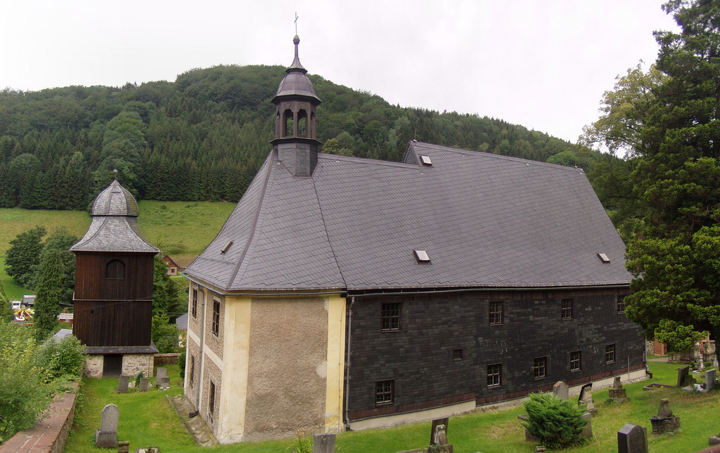 St Christopher church in Kryštofovo Údolí, Liberec District, Czech Republic.